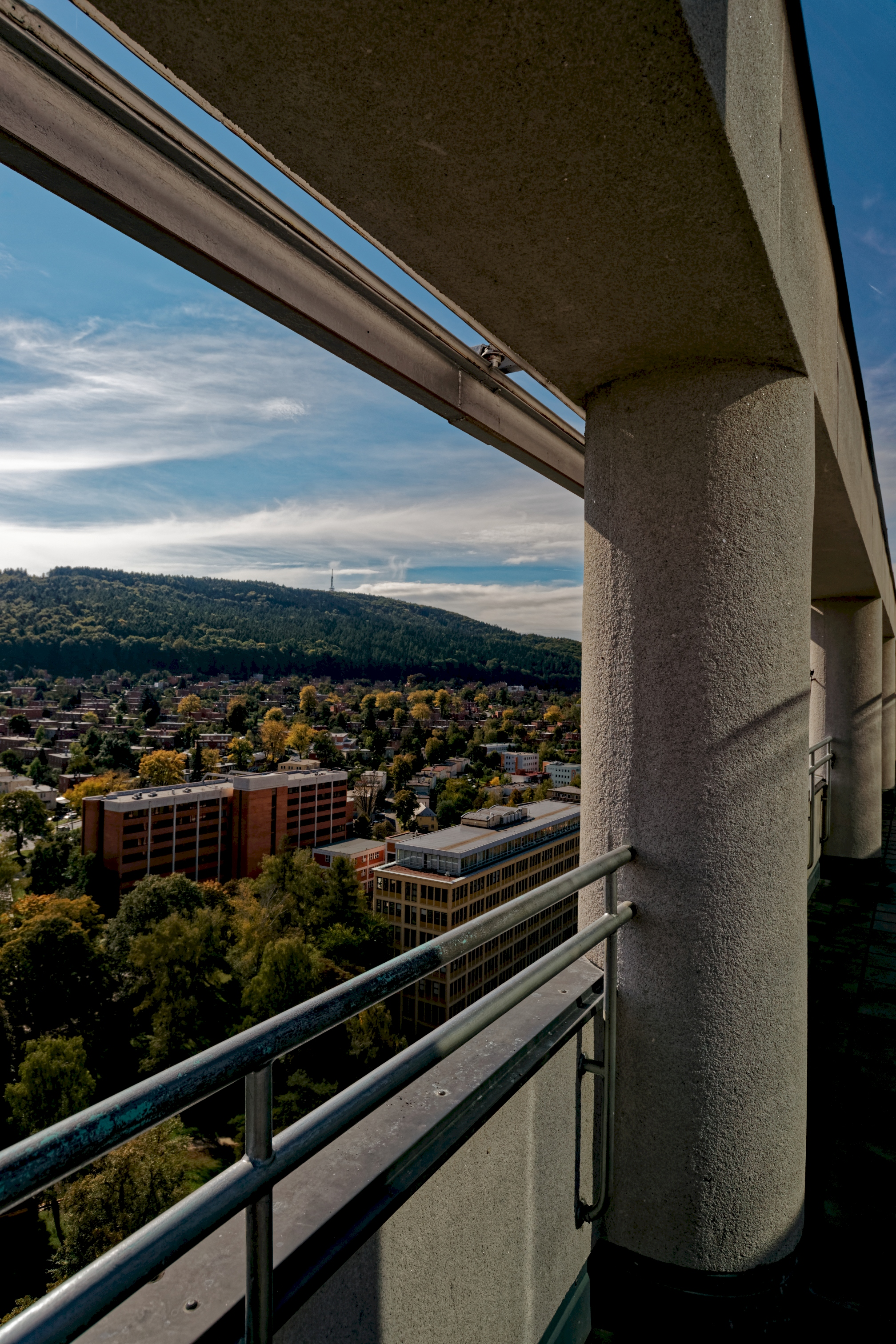 Zlín - Třída Tomáše Bati 21 - Baťův mrakodrap / Baťa's Skyscraper 1936-38 by Vladimír Karfík - 17th Floor - View SW